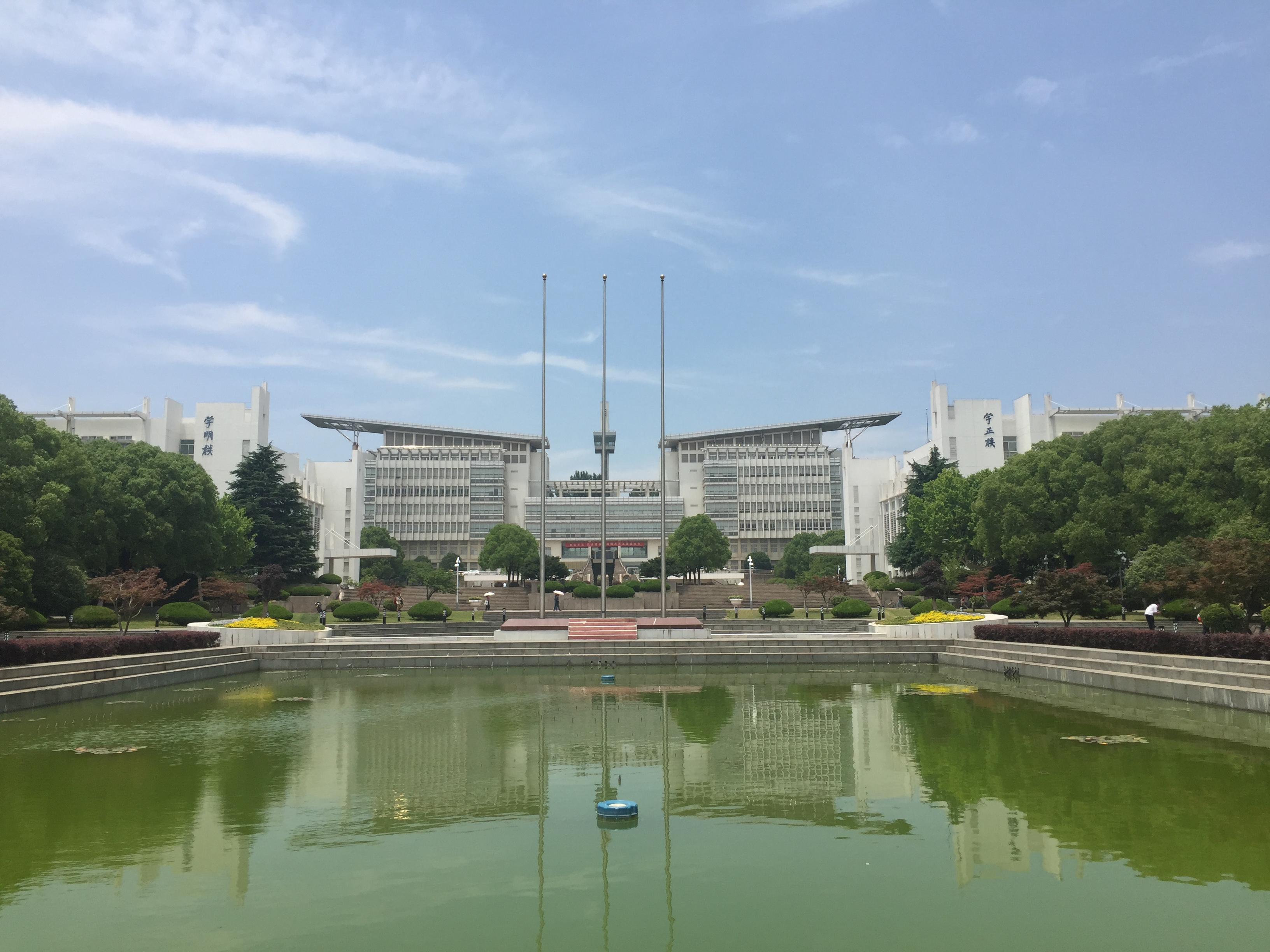 Jingwen Library and Lake. The ornamental pool sometimes has a fountain